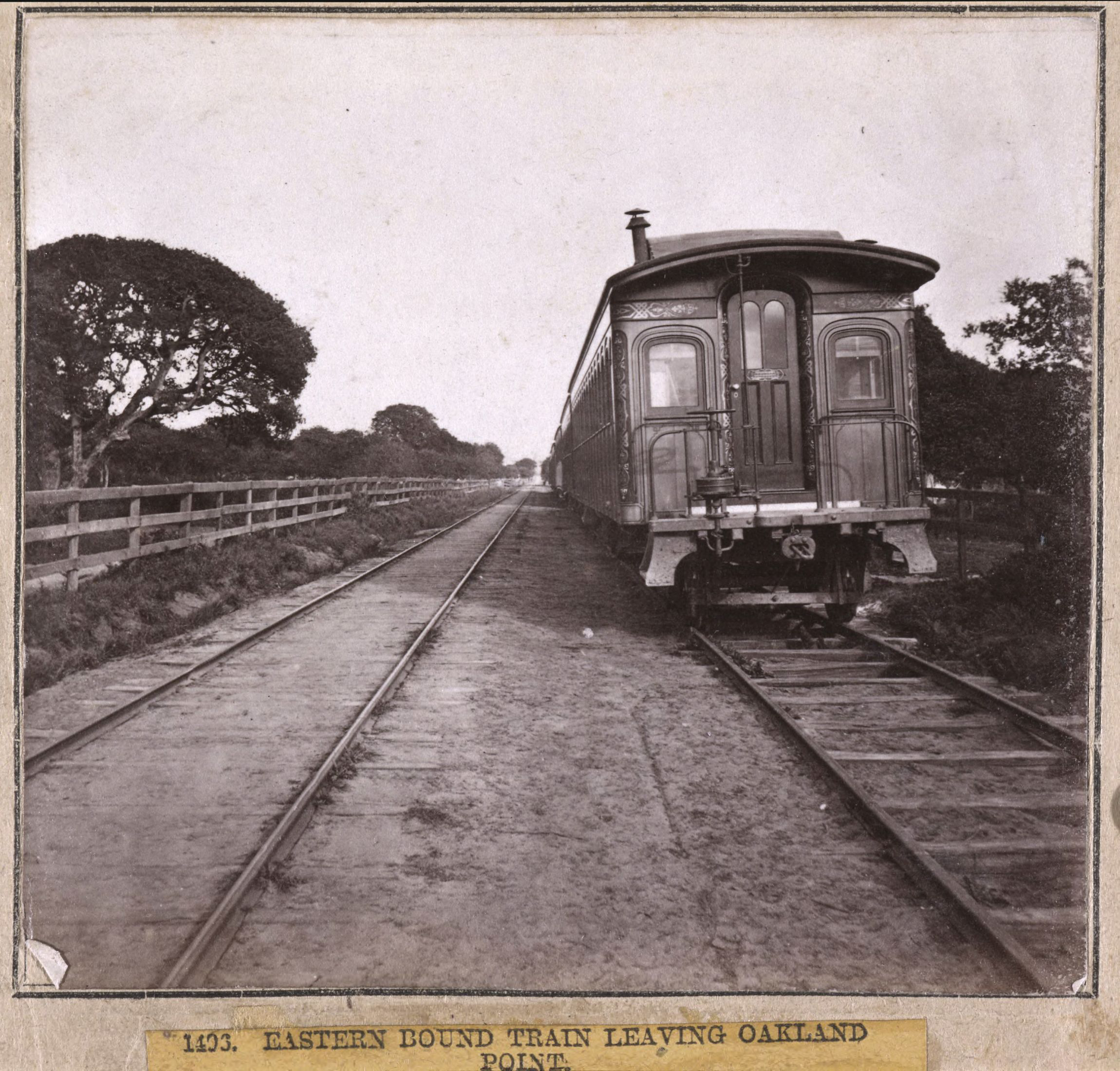 1496. Eastern Bound Train Leaving Oakland Point.